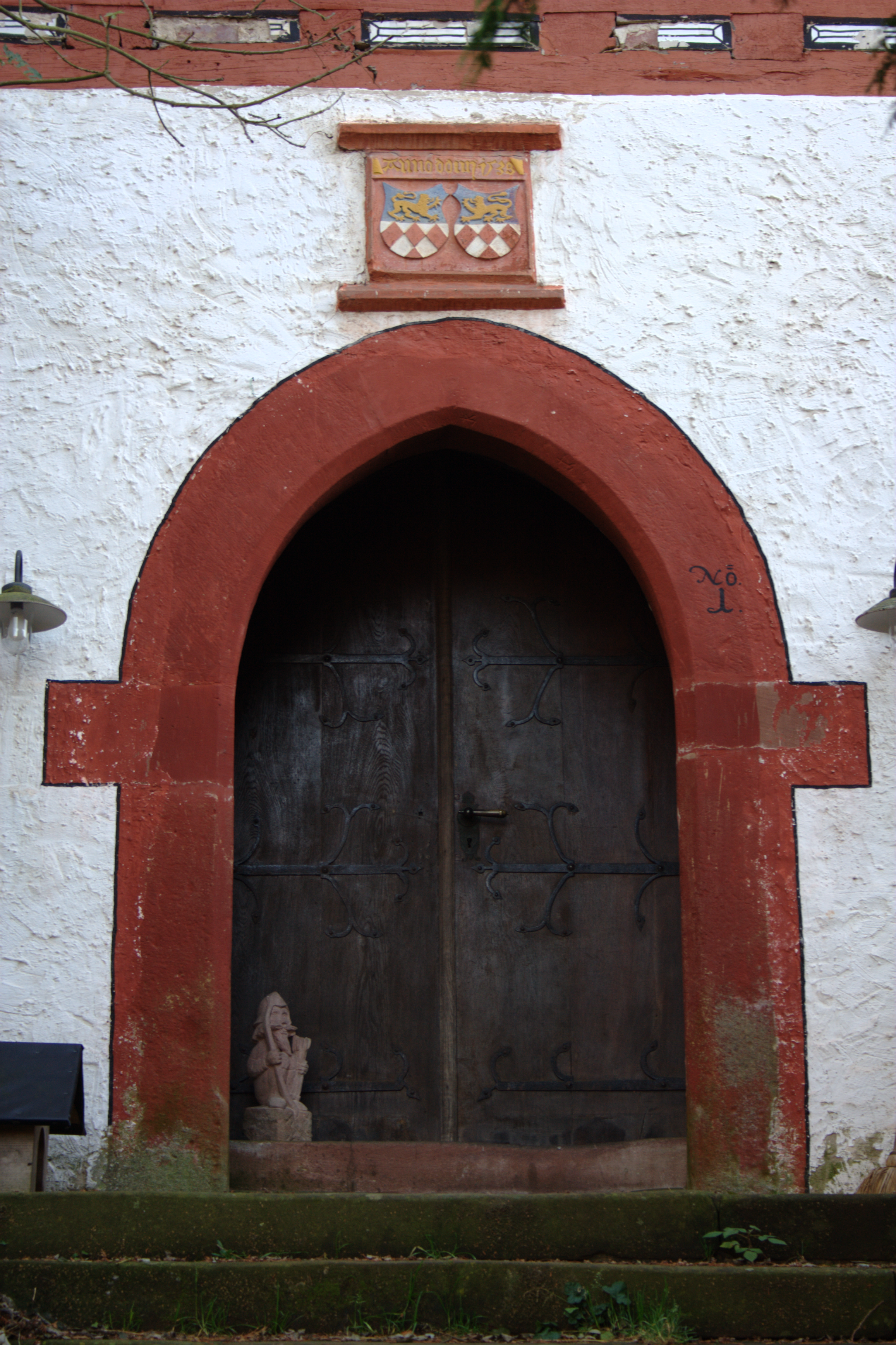 Entrance Burg Schmitthof near Lehrbach / Kirtorf / Hesse / Germany